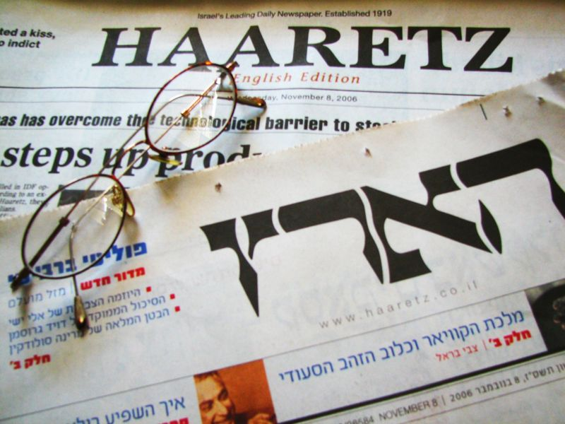 taken by he:משתמש:Hmbr